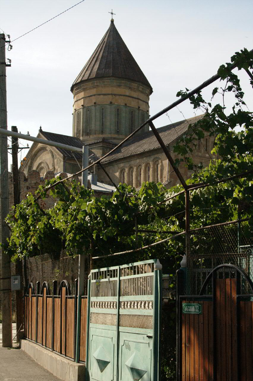 Svetitskhoveli